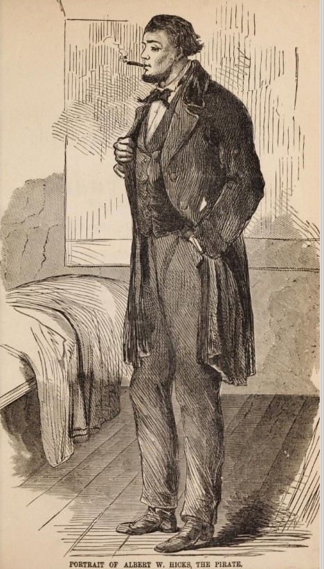 Portrait of Albert W. Hicks